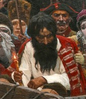 Detail of the painting "Morning of streltsy's beheading" by Vasily Surikov (1881)